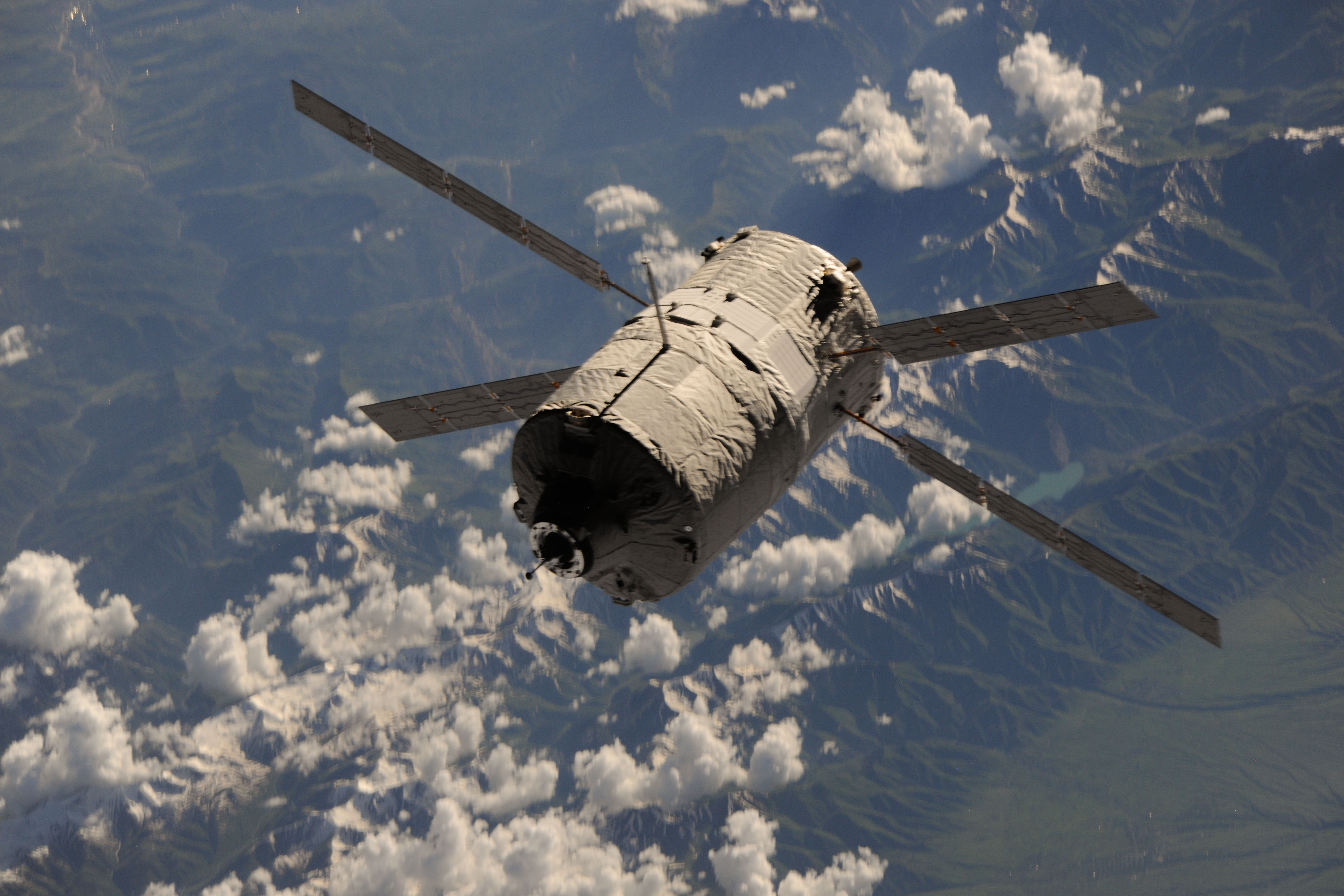 ISS036-E-007747 (15 June 2013) --- The European Space Agency's Automated Transfer Vehicle-4 (ATV-4) "Albert Einstein" is about to dock to the orbital outpost at 2:07 GMT, June 15, 2013, following a ten-day period of free-flight.